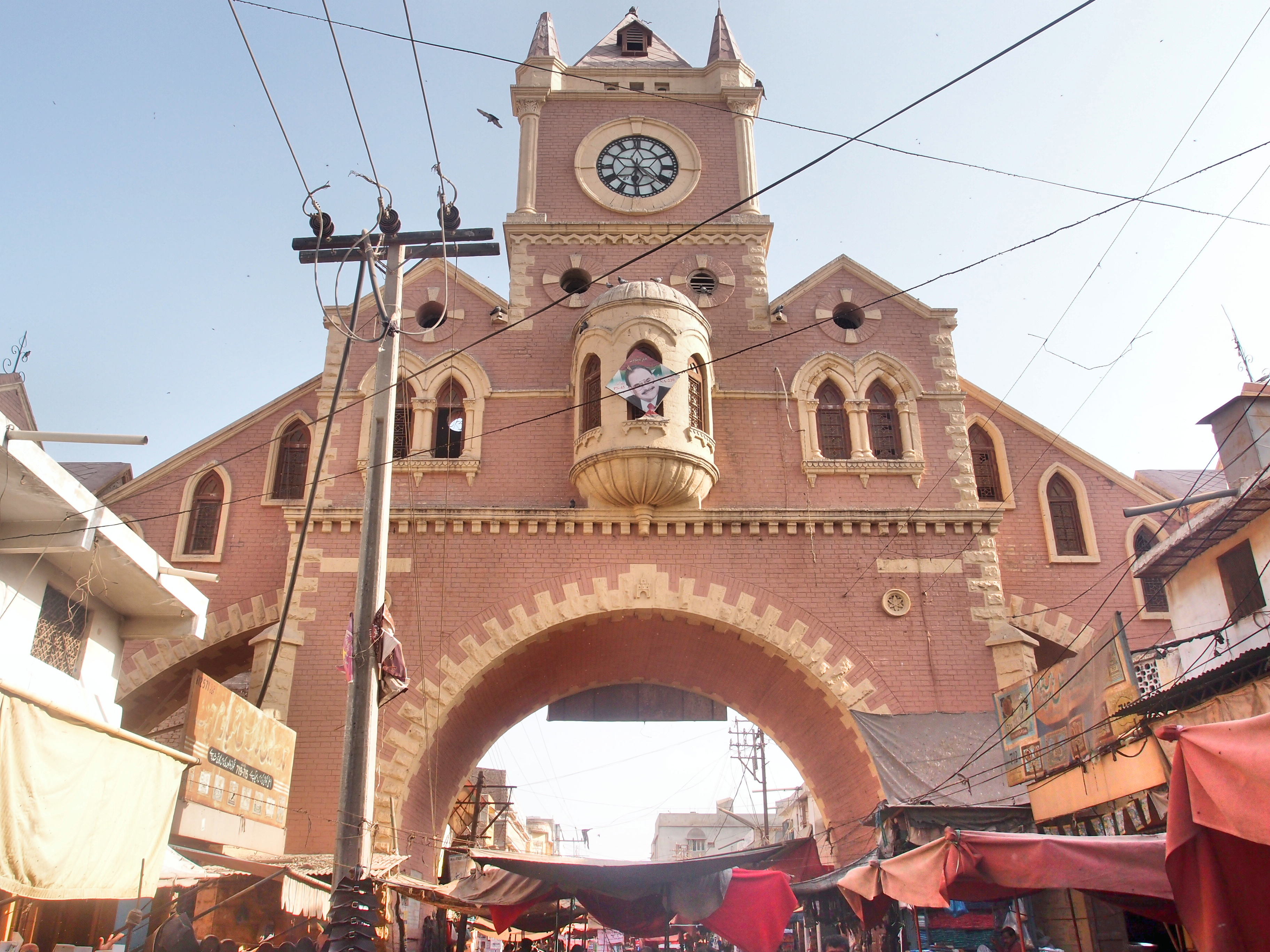 Navalrai Market Clock Tower located in Shahi Bazaar in Hyderabad built by British in 1914